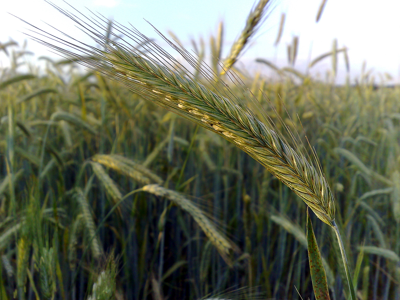 an ear of rye